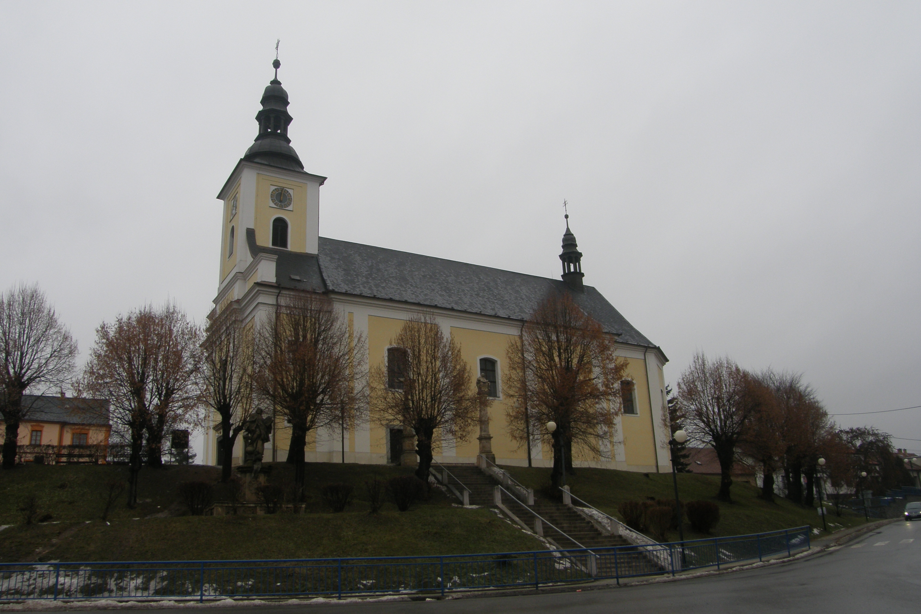 Church of Saint George in Velké Opatovice, Blansko District, the Czech Republic.